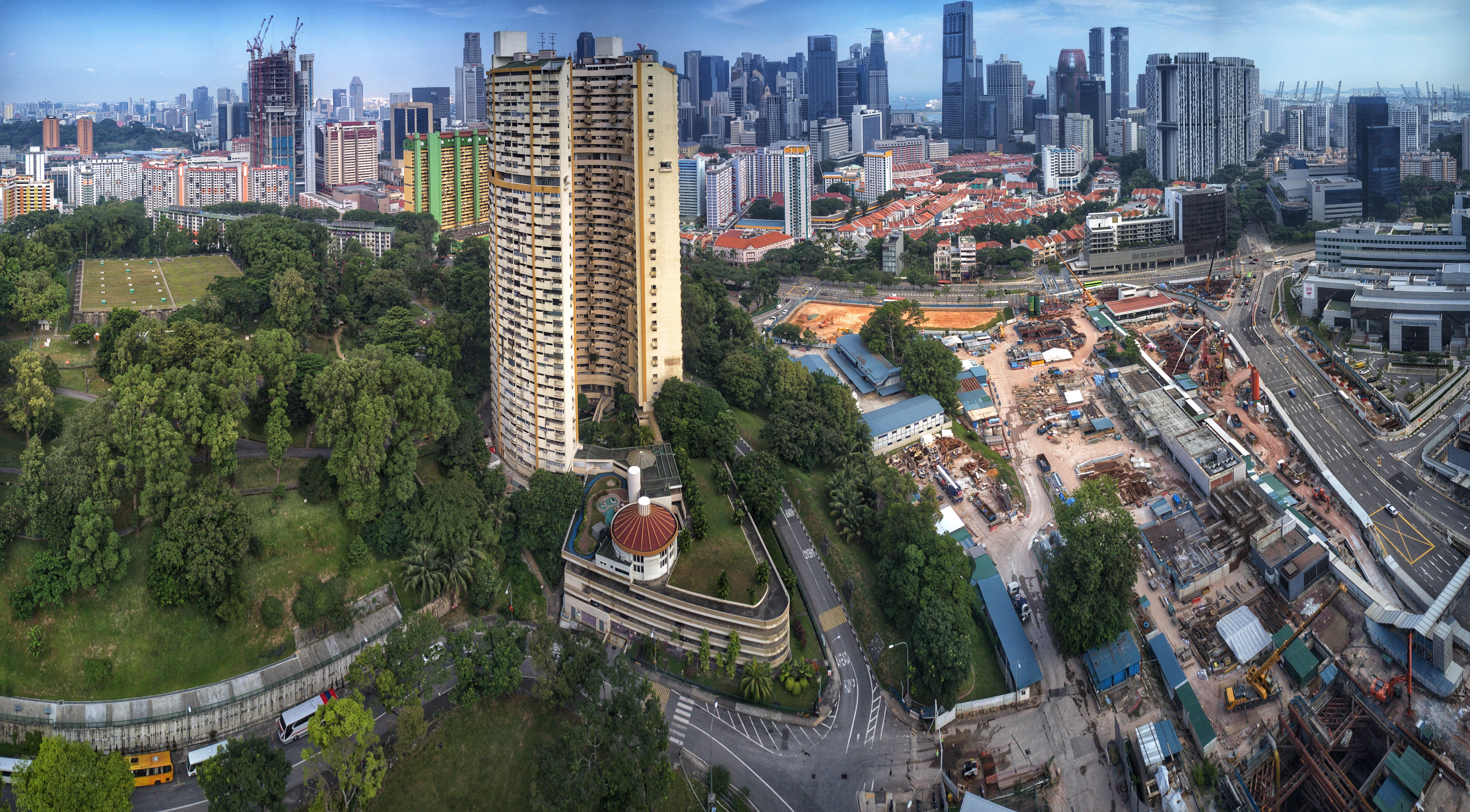 Aerial panorama of Pearl Bank Towers relative to its Outran location. Shot October 2018.